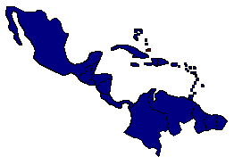 Caribbe States Association members II